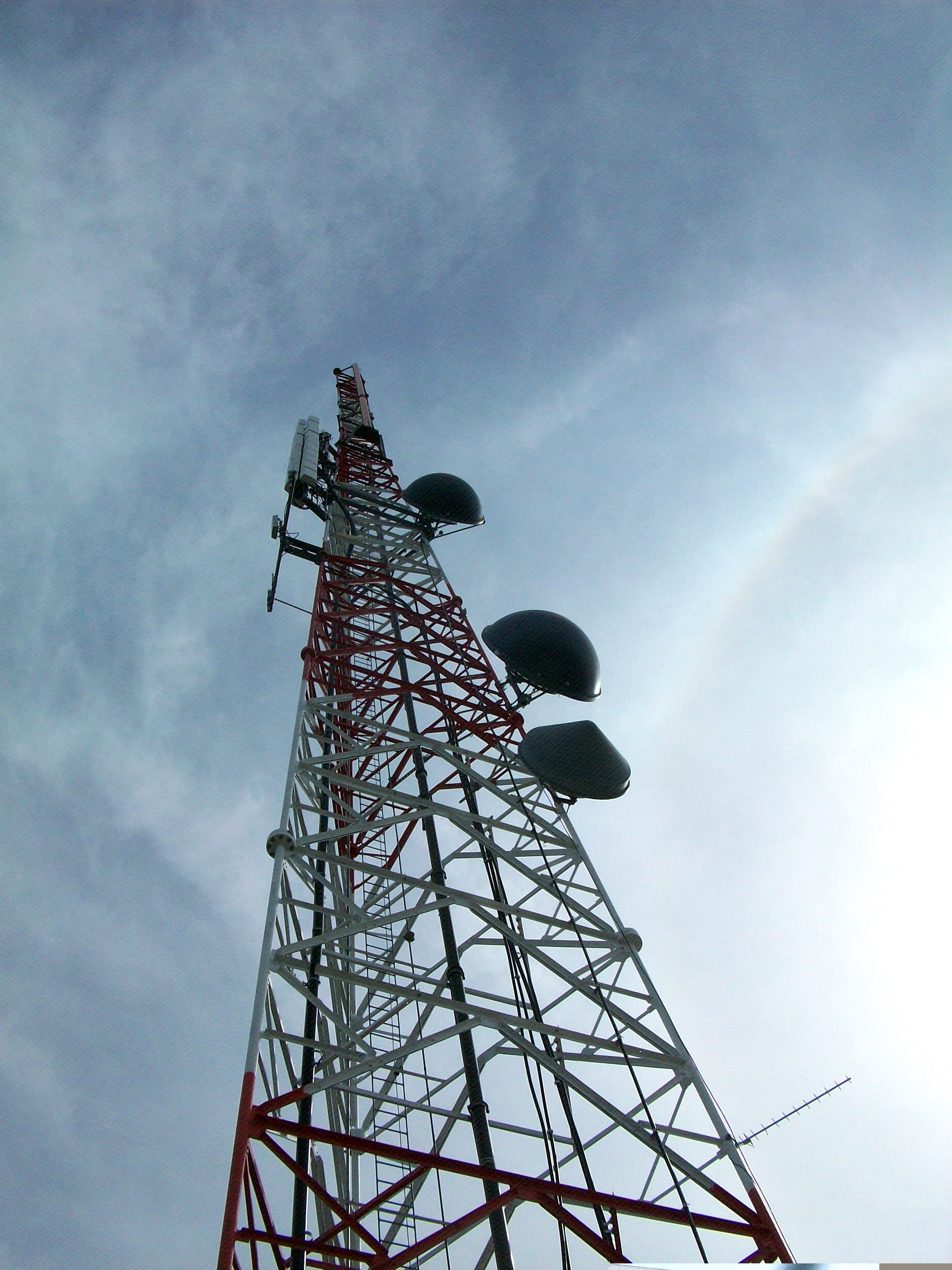 The radio tower for KUPX (analog channel 16) and KUTH (analog channel 32) atop Lake Mountain, Utah.